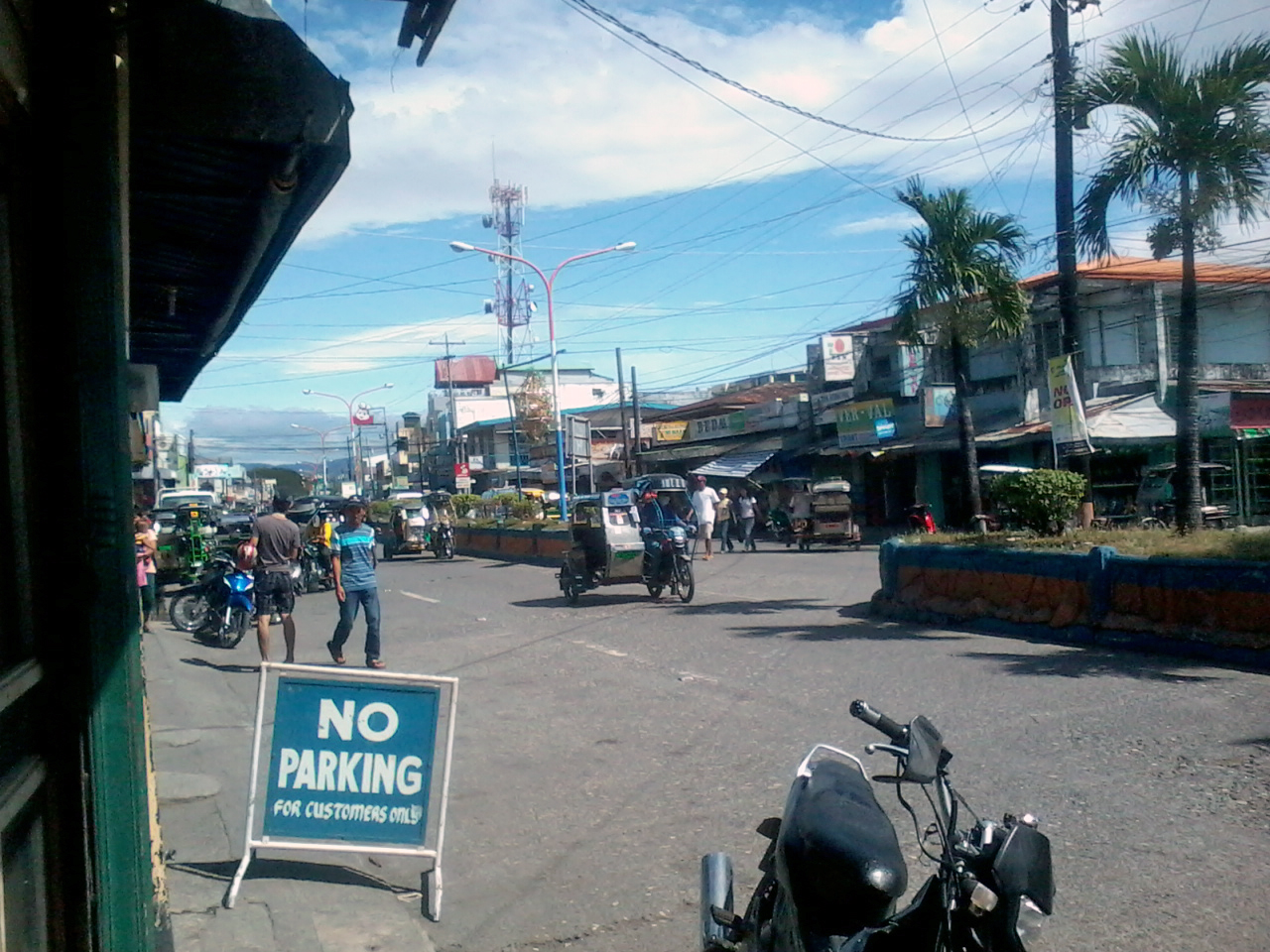 The streets of San Jose, Occidental Mindoro